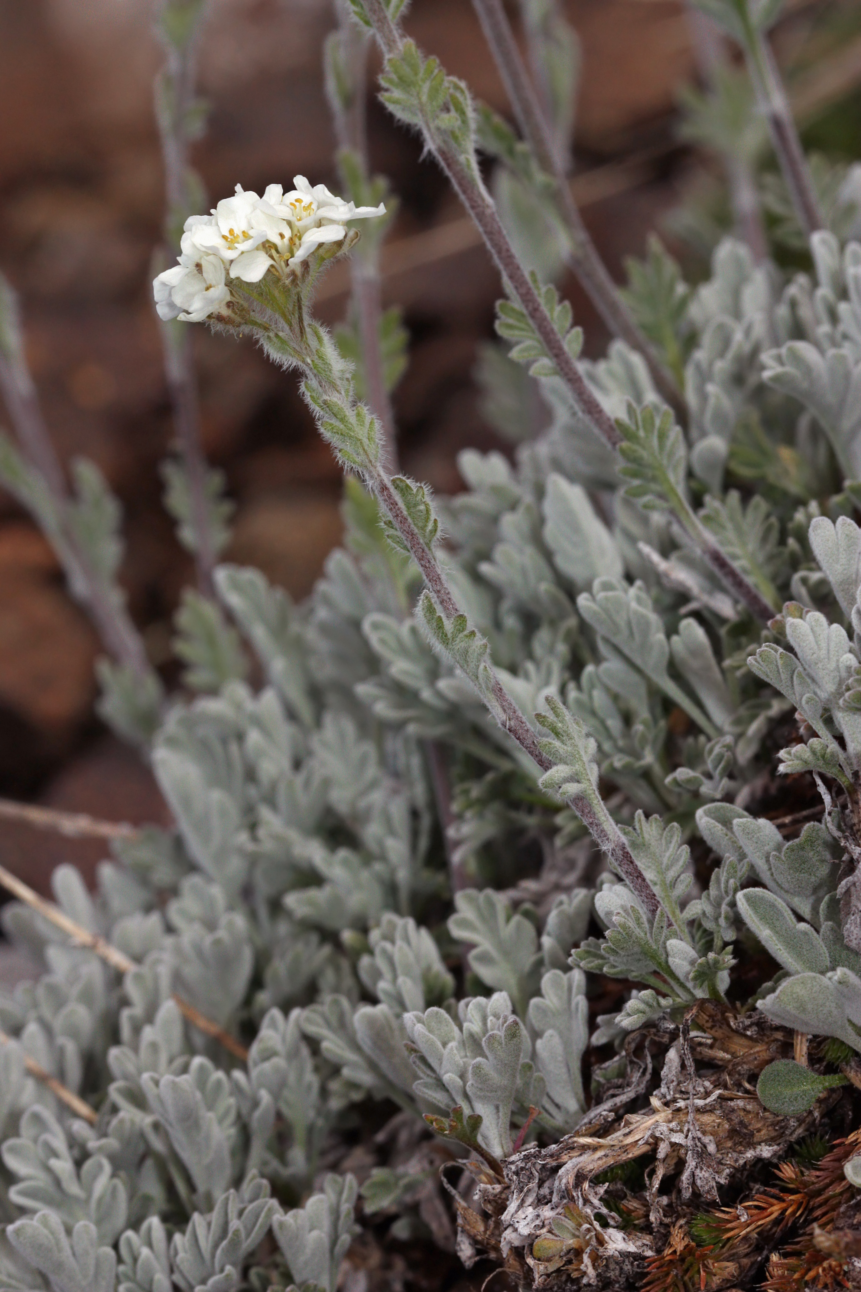 Alpine Smelowskia, Siberian Smelowskia Viewpoint location: Blue Mountain (6000+ feet, 1829+ m), north ridge, Olympic National Park Viewpoint elevation: 1759 meter (5770 ft) Location source: Garmin GPSmap 60CSx Location Datum: WGS84